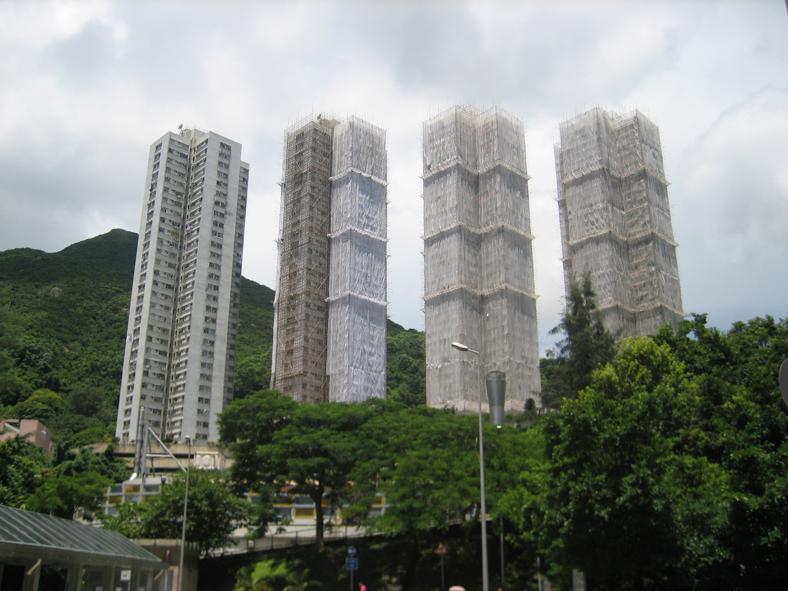 Shan Tsui Court during modernization